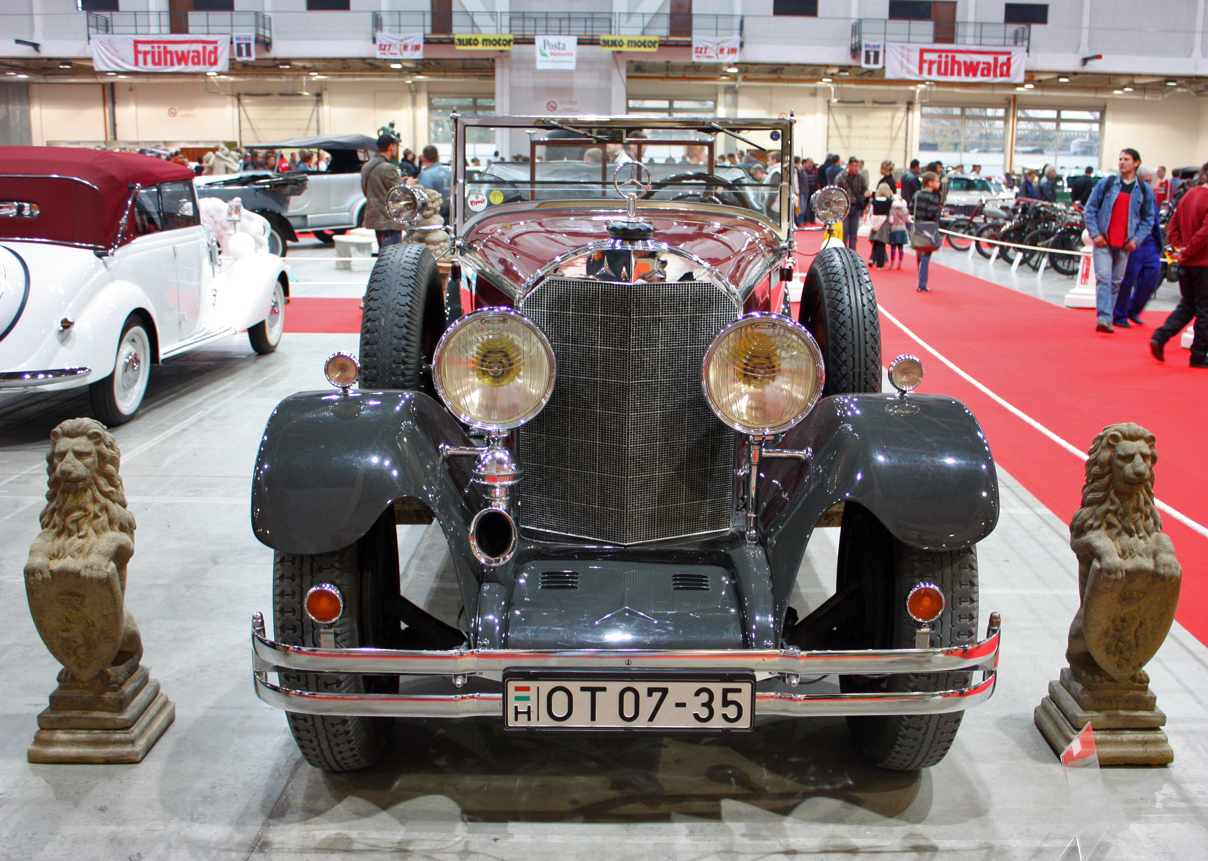 Oldtimer Show 2008.